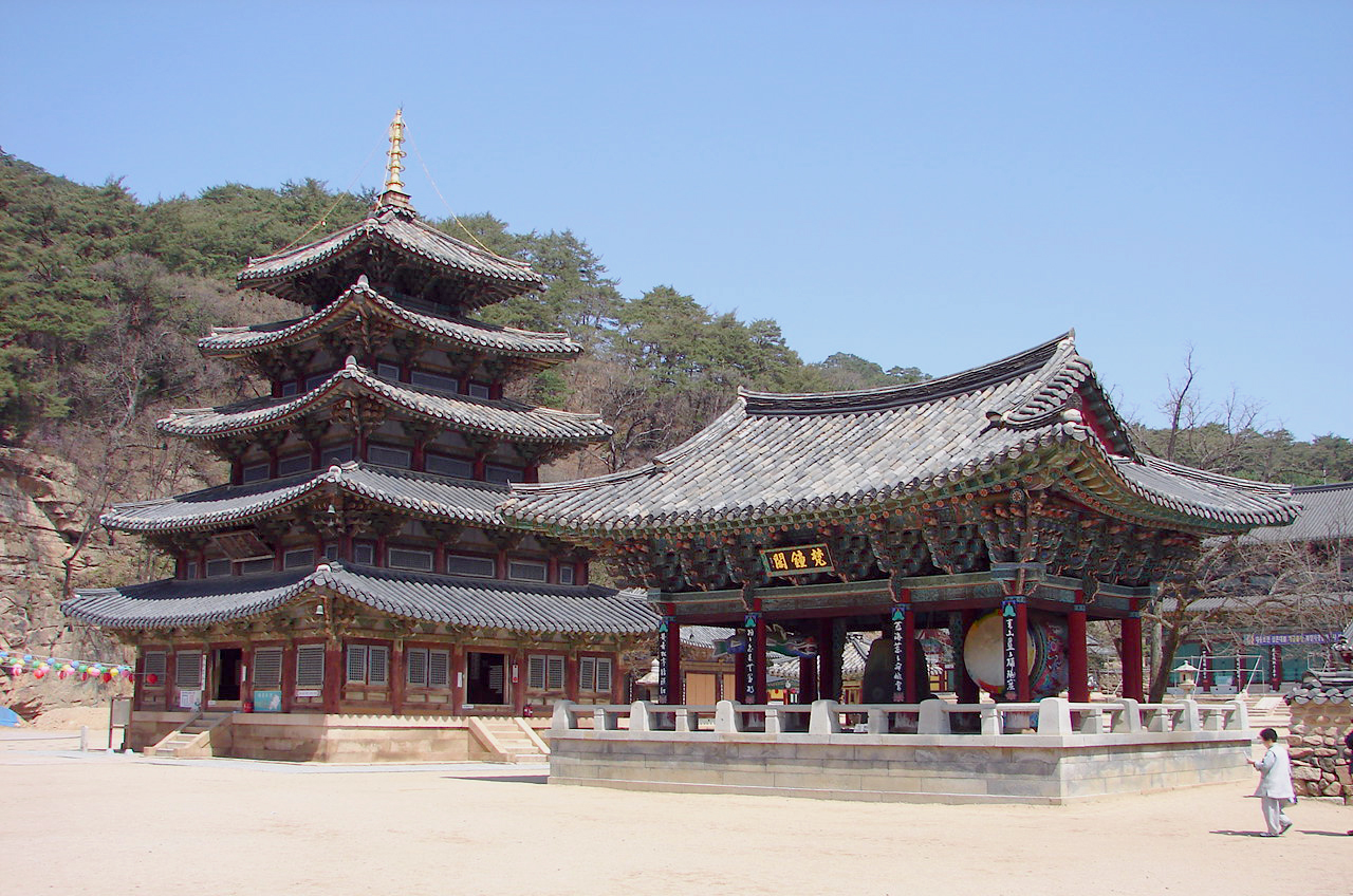 Palsangjeon (Hall of Eight Pictures) is located at Beopjusa (Buddhist temple) originally built in 553, rebuilt beginning in 1605 being completed in 1626, and renovated again in 1968. Palsangjeon is a five story wooden pagoda with the four interior walls having paintings depicting the life of Buddha. Palsangjeon is National Treasure of Korea #55.